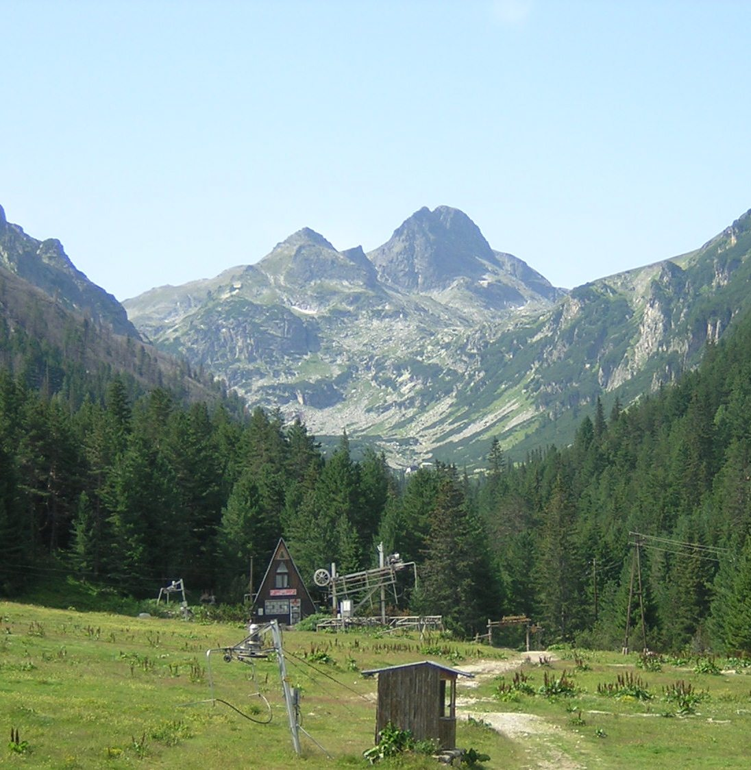 Malyovitsa peak, Rila Mountains, Bulgaria, from the north. Trees are mixed Pinus peuce and Picea abies.